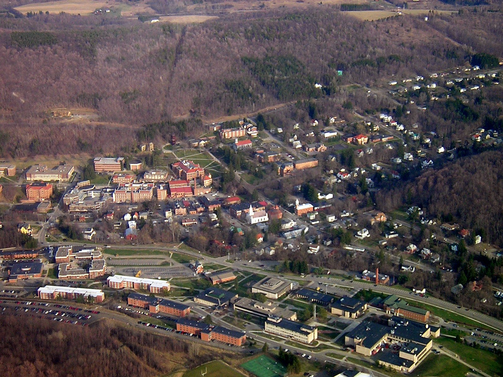 Author: Martin Klingensmith Source: Original Date: April 5, 2006 Aerial image about 2,500 feet above sea level of Alfred, New York. Raidfibre 20:41, 23 April 2006 (UTC)